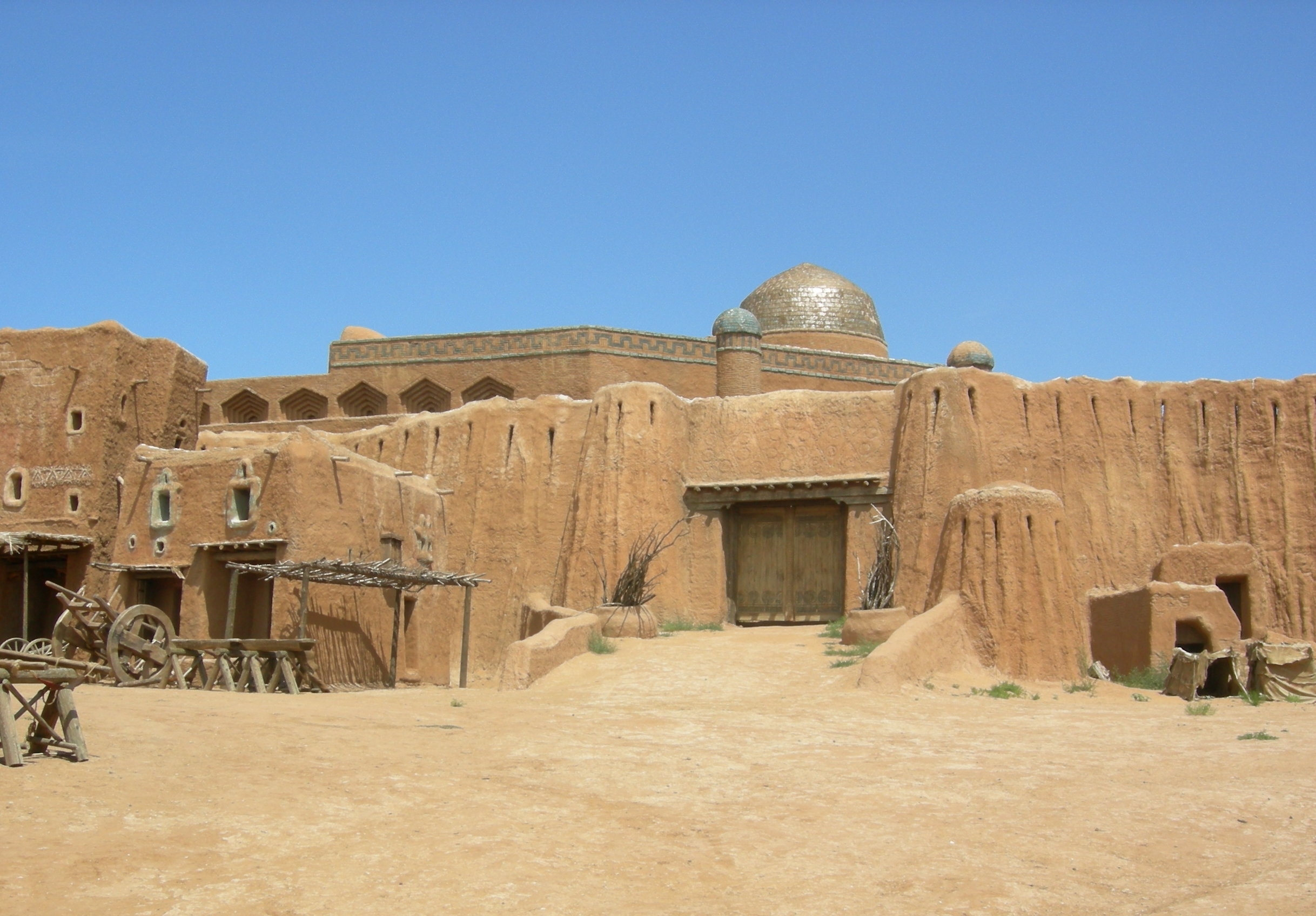 This image has been uploaded for Wikivoyage travel guide on Астрахань